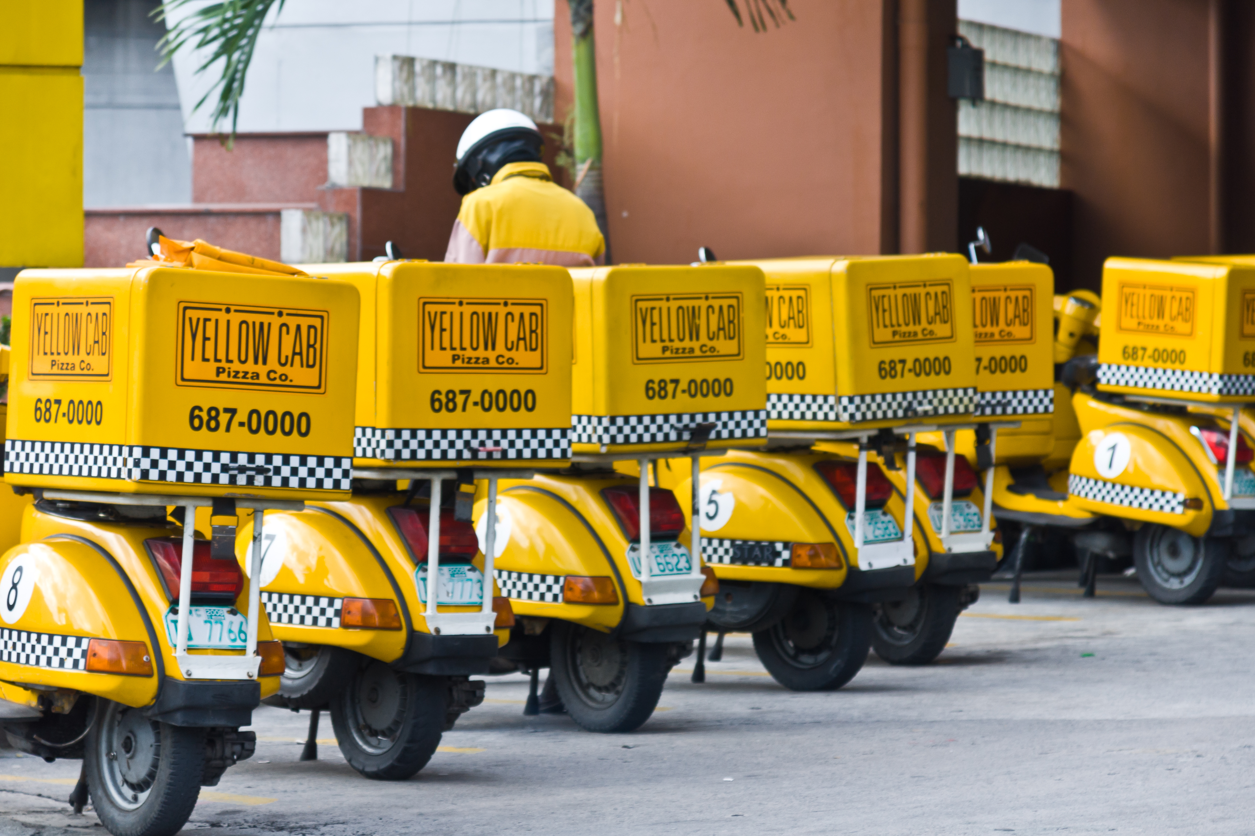 Manila, Philippines: Pizza Taxi in Makati Business District